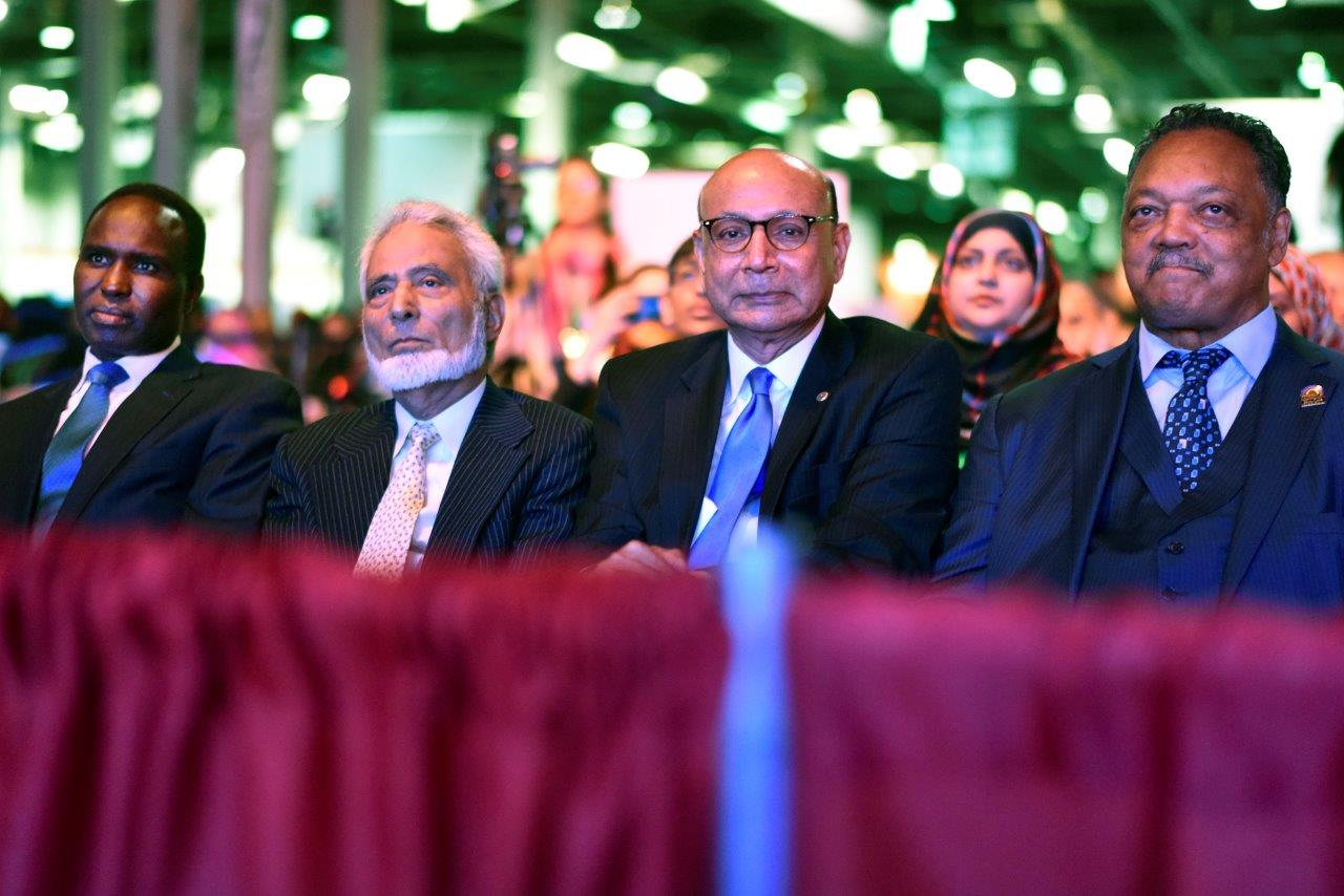 CHICAGO - Secretary of Homeland Security Jeh Johnson speaks at the Islamic Society of North America’s 53rd Annual Convention in Chicago, Sept. 3, 2016. Secretary Johnson has been steadfast in his commitment to build bridges to American Muslim communities, having personally met with leaders in Boston, New York, Philadelphia, rural Pennsylvania, Maryland, Virginia, Detroit, Chicago, Columbus, Houston, Minneapolis, Dearborn, and Los Angeles. Official DHS photo by Barry Bahler.